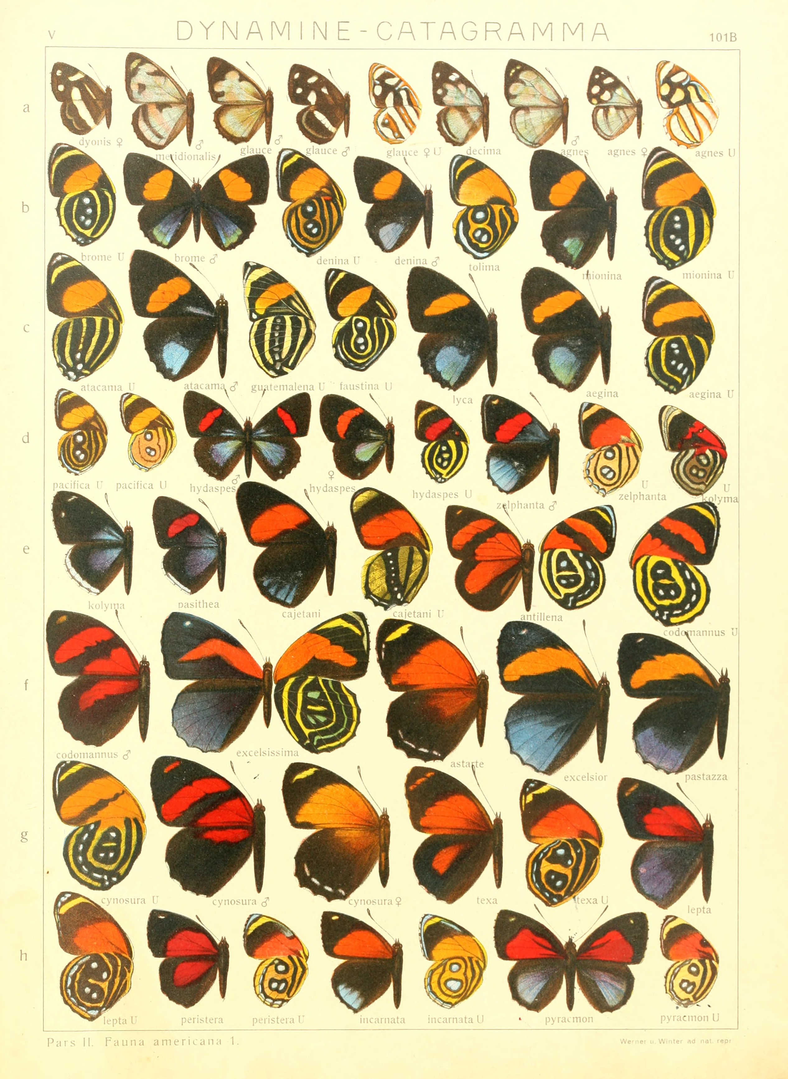 Plate from Seitz, A. ed. ( 1907) Die Großschmetterlinge der Erde, Verlag Alfred Kernen, Stuttgart Band 5: Abt. 3, Die exotischen Großschmetterlinge, Die Großschmetterlinge des amerikanischen Faunengebietes, The Macrolepidoptera of the world : a systematic account of all the known Macrolepidoptera: The Macrolepidoptera of the American faunistic region.Volume 5 part 3 text online read text See The Global Lepidoptera Names Index for valid names